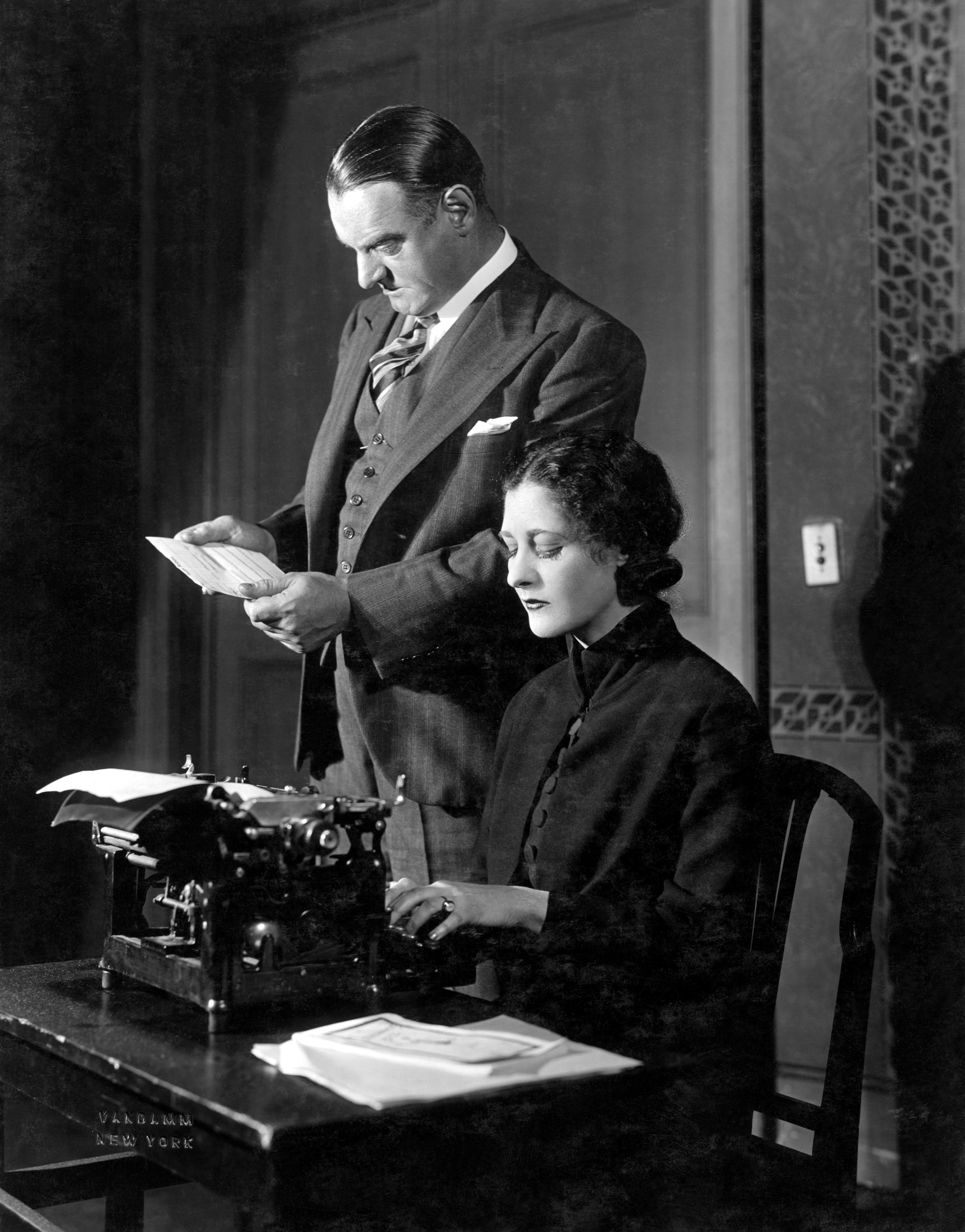 Promotional photograph of Siegfried Rumann (Sig Ruman) and Hortense Alden in the original Broadway production of Grand Hotel Caption reads as follows: Preysing, the textile manufacturer (Mr. Rumann), dictates a statement to Flaemmchen (Miss Alden), while waiting for his telegram from Manchester Notation on reverse side of original photograph reads, in part: Act 1 — Scene 5 "Only in mutual advantages, moreover"